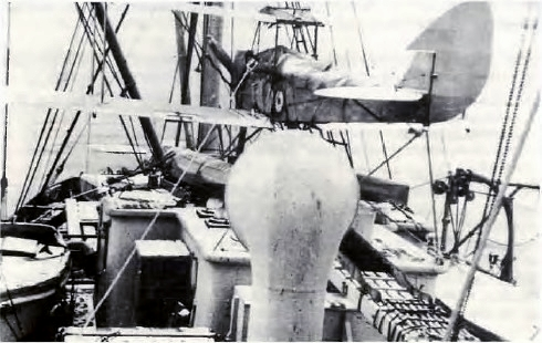 The Moth floatplane taken to Antarctica on board Discovery II to assist in the search for missing American aviator, Lincoln Ellsworth, in December 1935, shown with a mantle of snow after a storm. A Wapiti floatplane was also carried on the ship's deck (visible in background) but was not used.